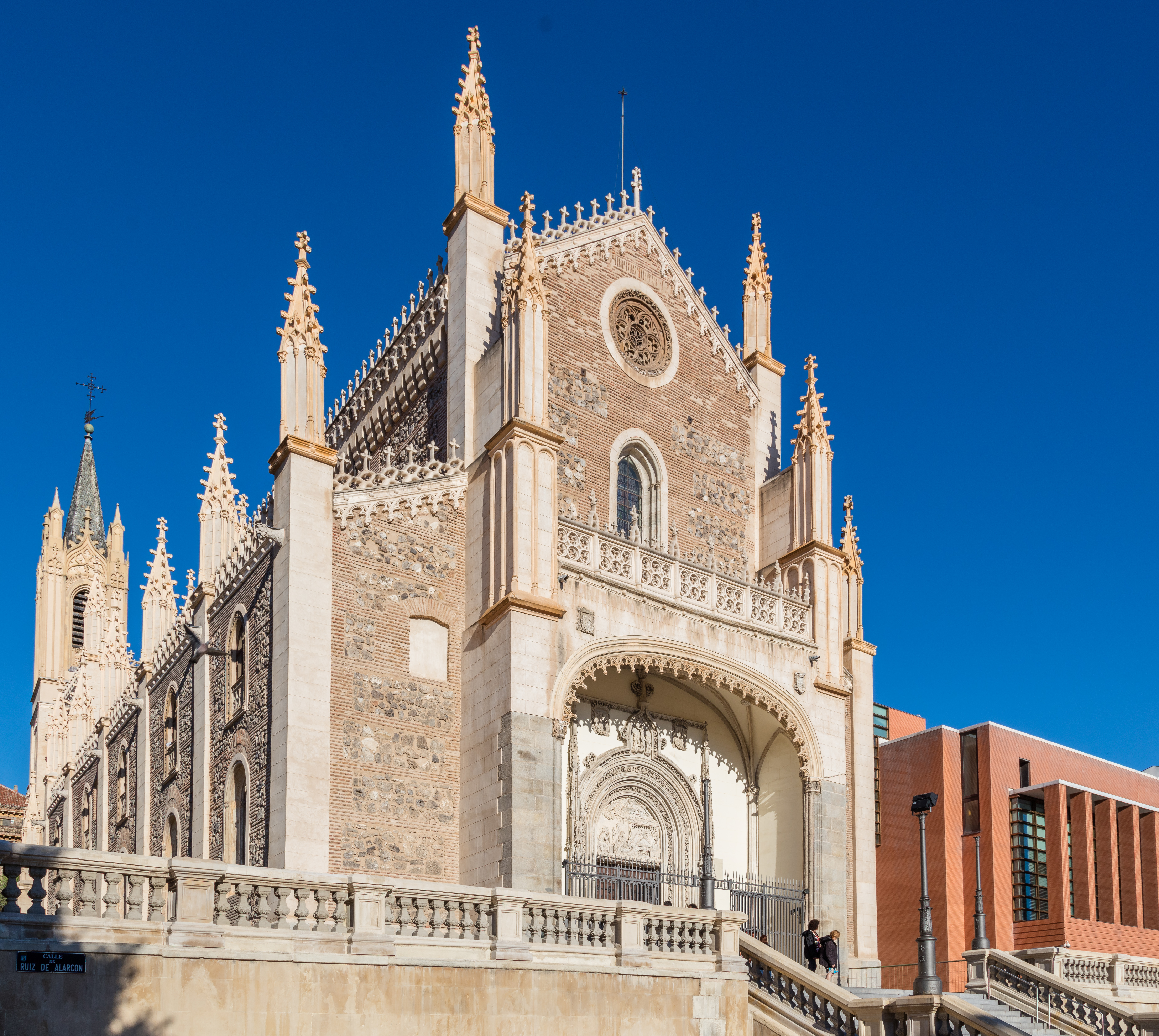 Church of San Jerónimo el Real, Madrid, Spain